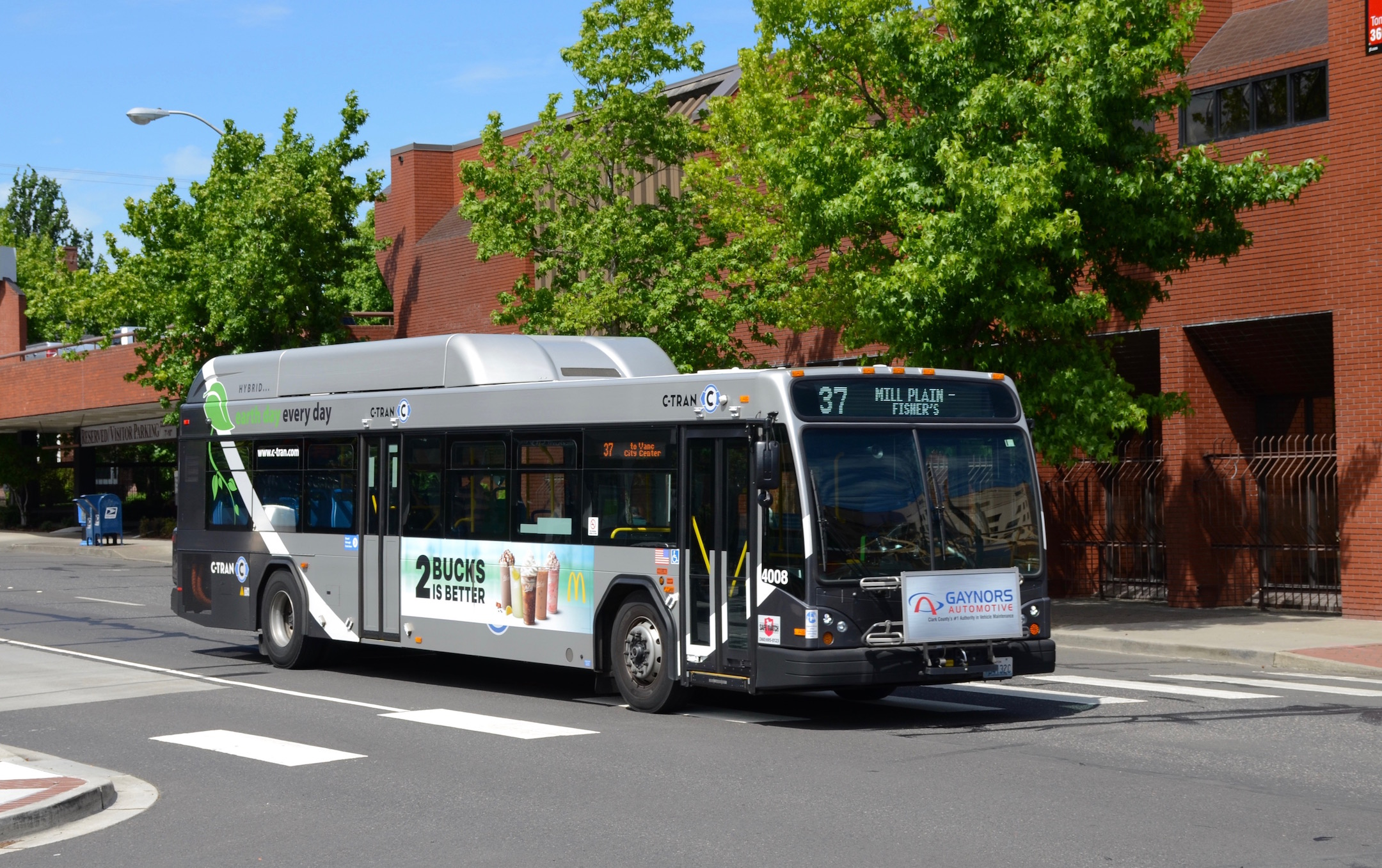 C-Tran bus 4008, a circa 2015 Gillig-built low-floor, 40-foot, hybrid-powered bus (Gillig model BRT-hybrid) southbound on Washington Street at 12th Street in downtown Vancouver, Washington, in service on route 37.